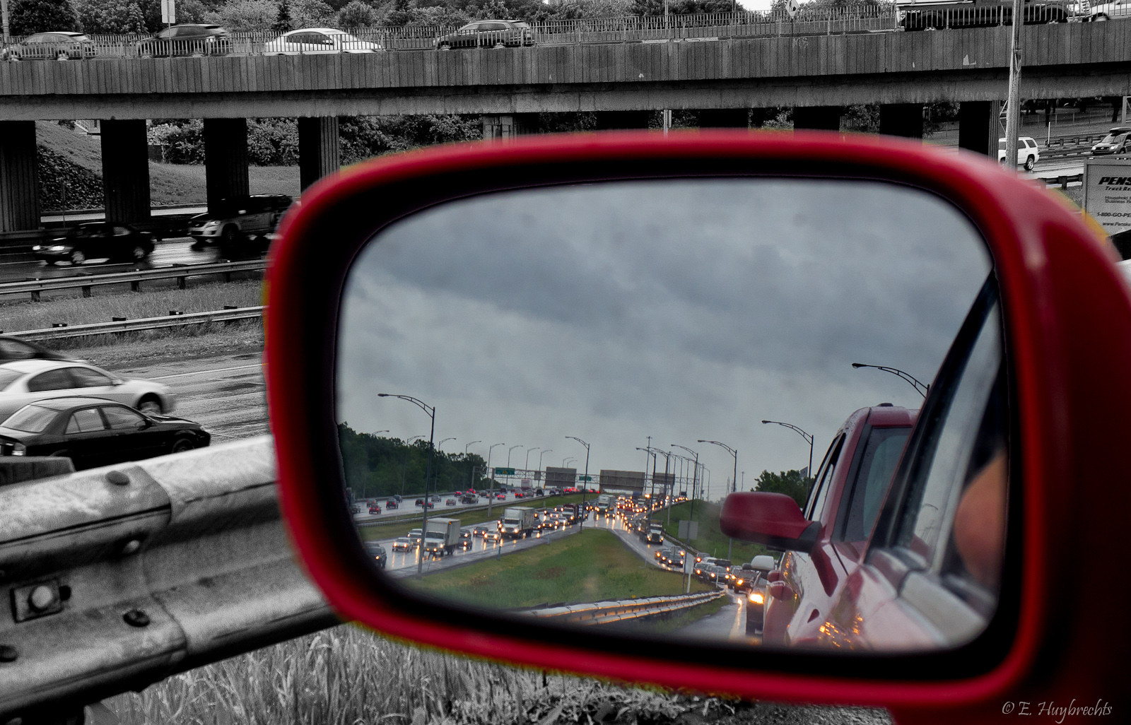 I know, everybody have shot their car mirror at least once and think it's so clever. So I tried a small twist to this and trying to be a bit more original. I'm not very good at Photoshop (if you look too closely you can see I'm really bad at masking) but I decided that the outside part of the mirror should be B&W to make a good contrast. And secondly I tried to make this B&W meaningful, related to what we see in the mirror. It's not exactly as I wanted (I was in the traffic and I don't think waiting for the perfect composition would have been well received by the other conductors!).